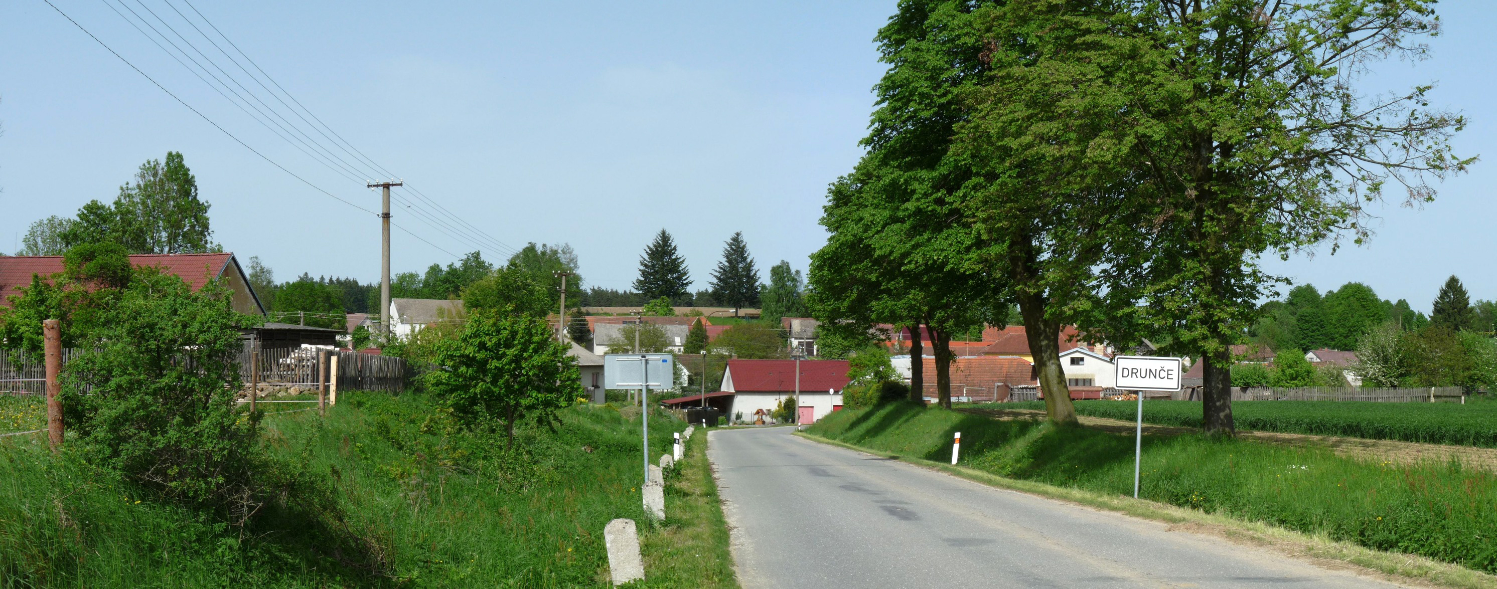 View of the village of Drunče, Jindřichův Hradec District, South Bohemian Region, Czech Republic.